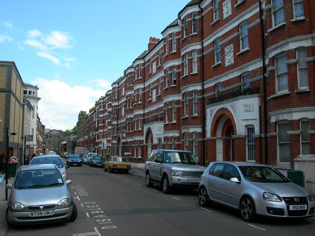 Rushcroft Road, SW2 Picture was taken near Effra Road. The red brick buildings on the right are flats with decorated white cornices (ledges) and some white stucco (cement/render) above the doorways.